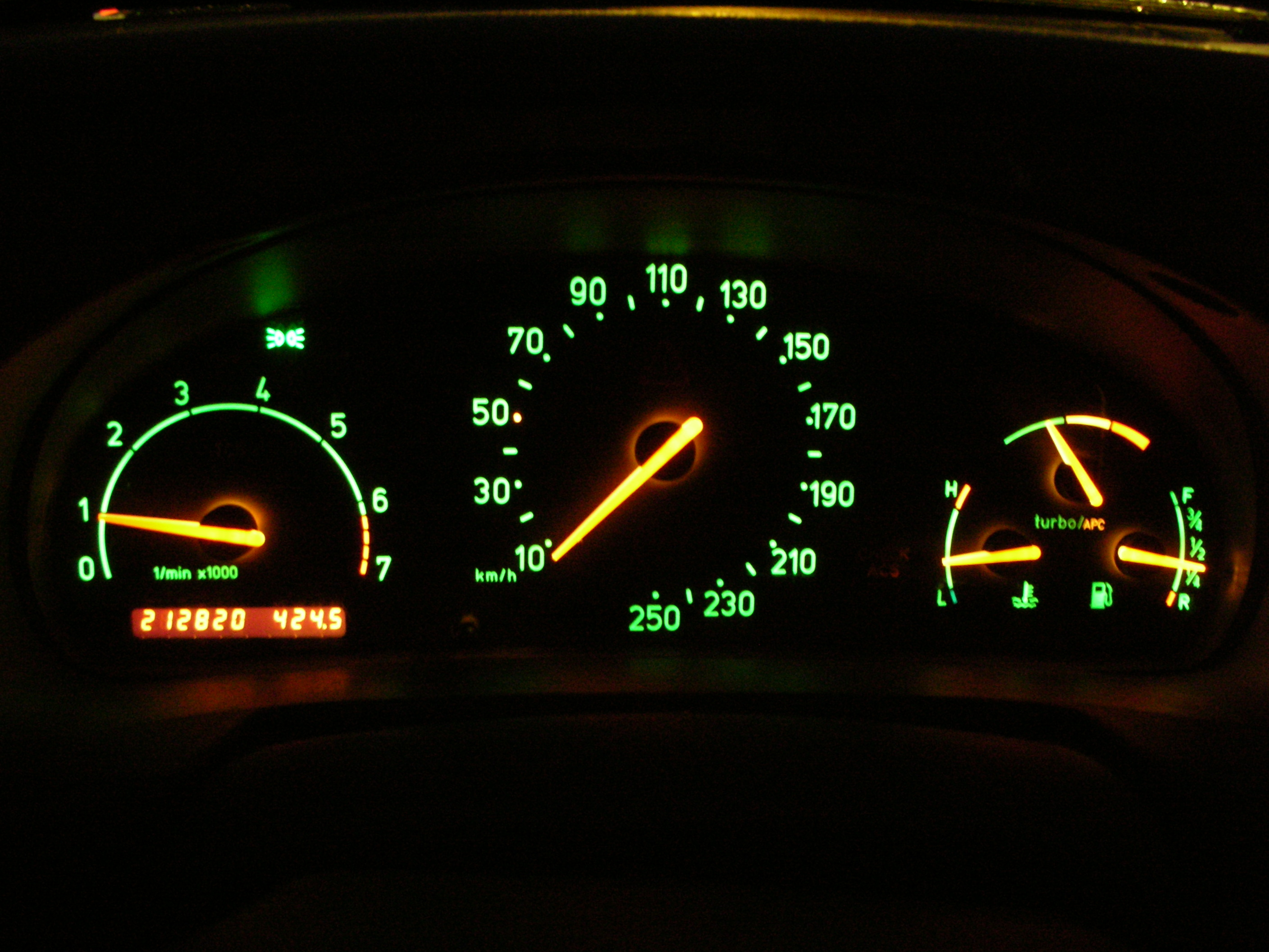 Dashboard of a 1995 Saab 900 2.0 Turbo, Black Panel not activated.